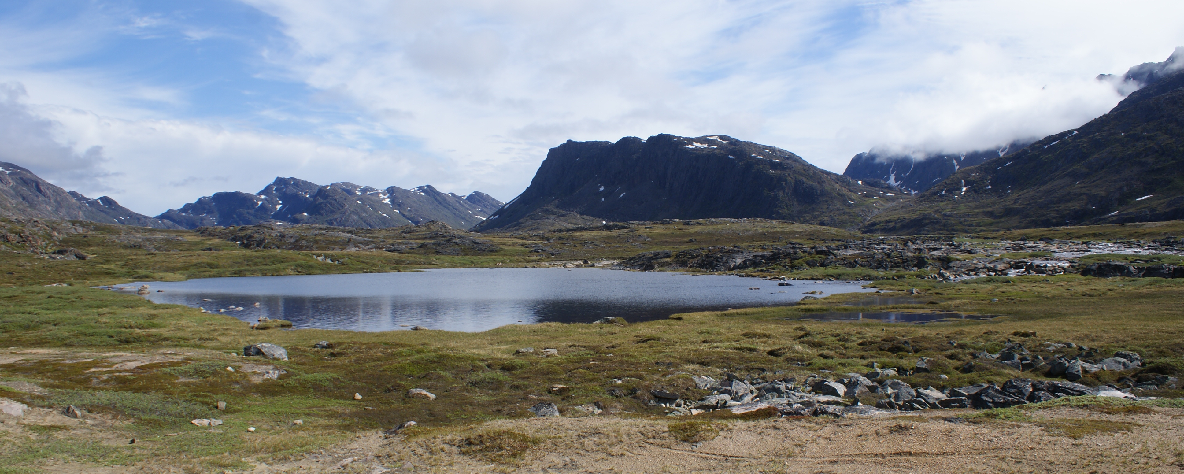 Alanngorsuaq (411m) in Sisimiut valley, Greenland. Seen from the west.